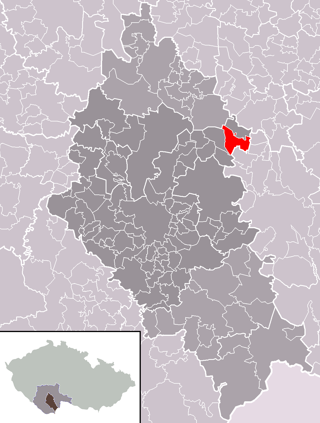 Location of Dynín municipality within České Budějovice District and administrative area of České Budějovice as a Municipality with Extended Competence.